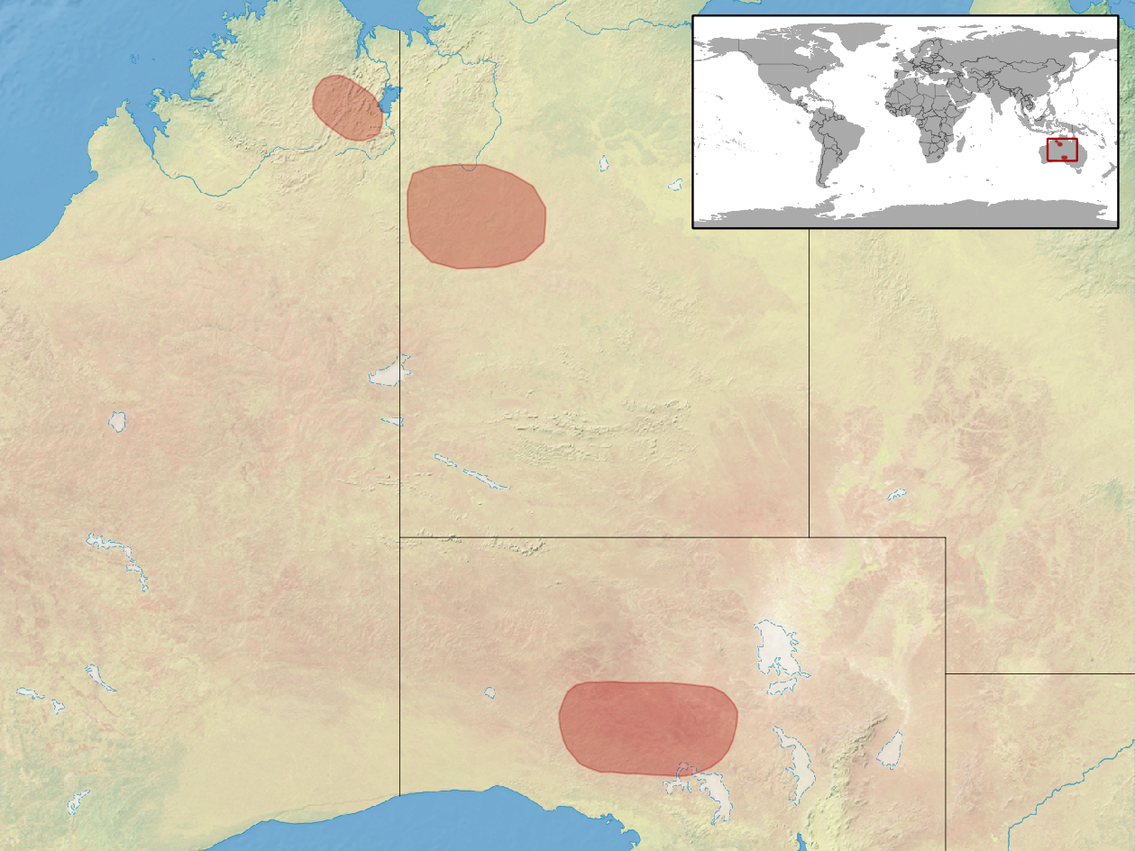 geographic distribution of Lerista taeniata